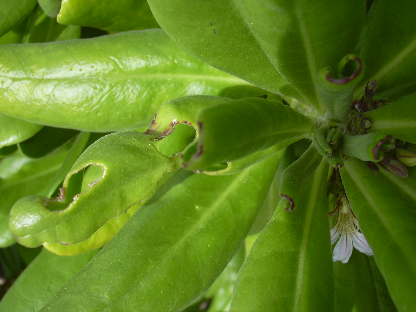 Scaevola taccada (with Udea feeding). Location: Maui, Moku Mana